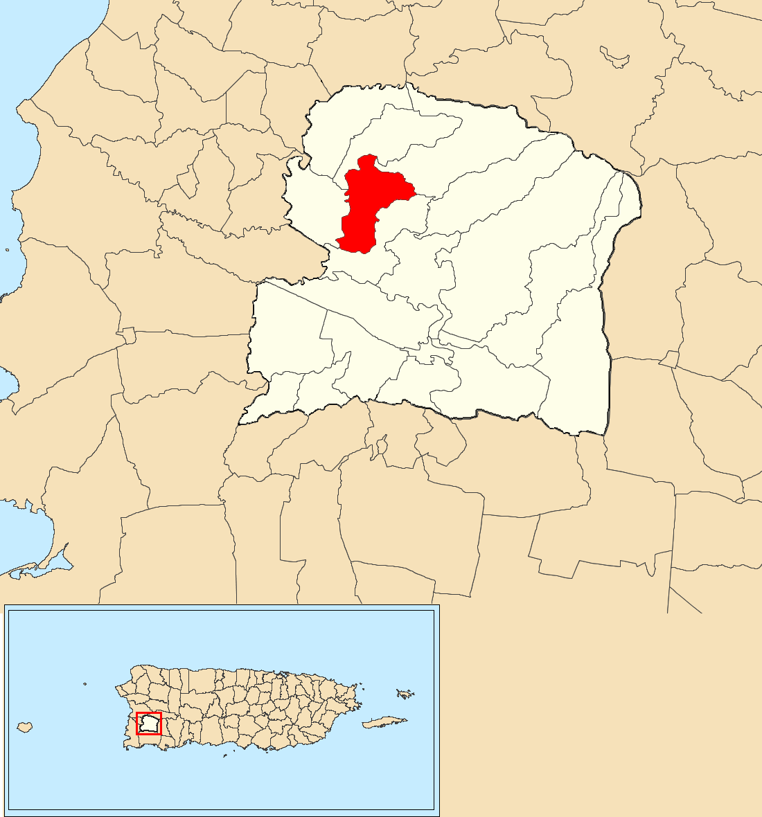 Duey Alto, San Germán, Puerto Rico locator map